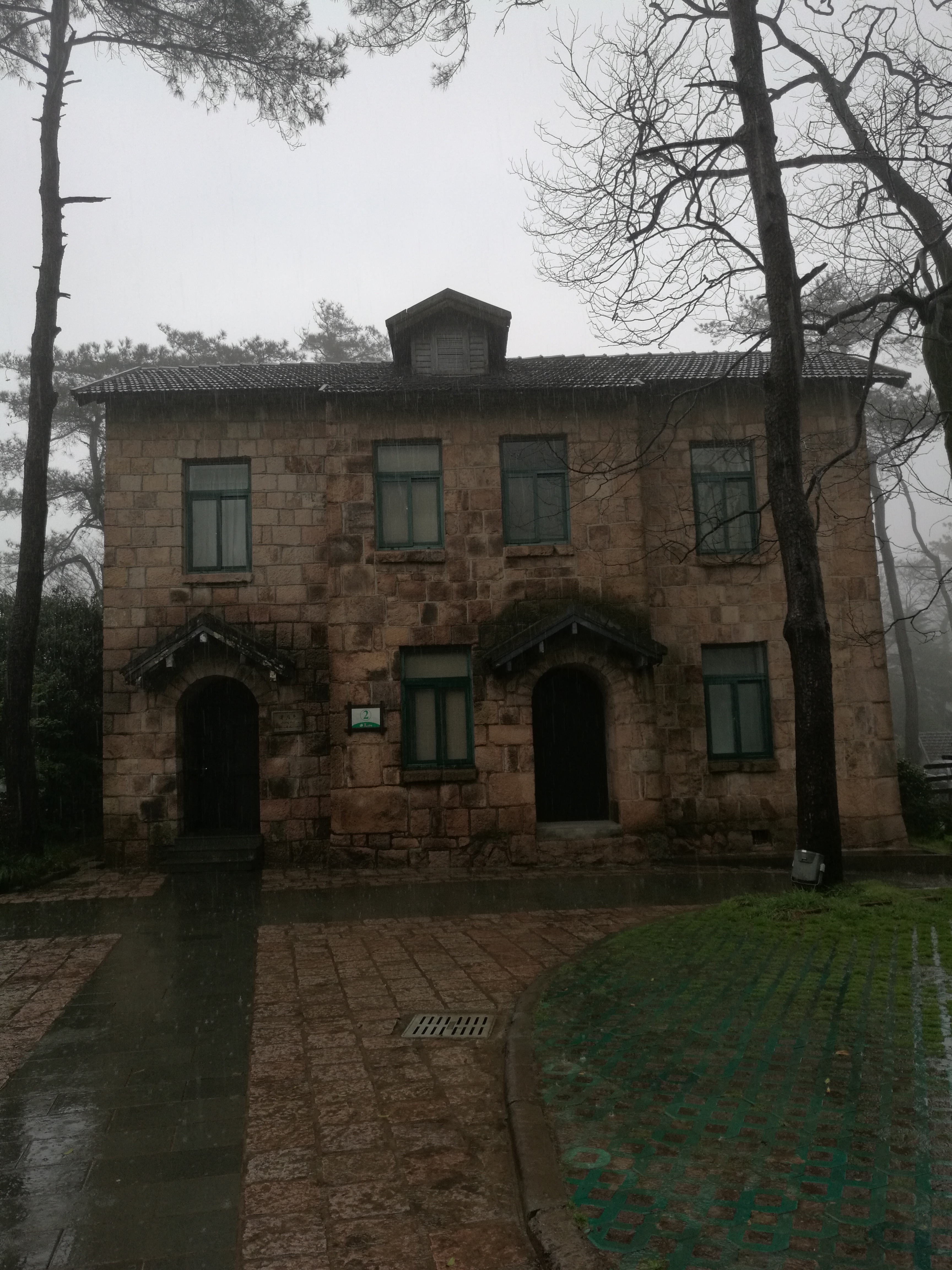 Mount Mogan Villa